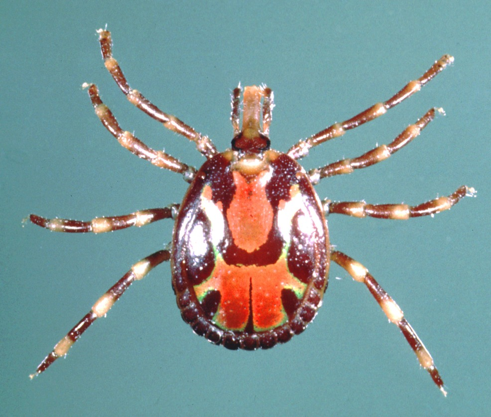 A hard tick, family Ixodidae, Amblyomma variegatum. A male viewed dorsally. The coloured pattern is typical of Amblyomma ticks.